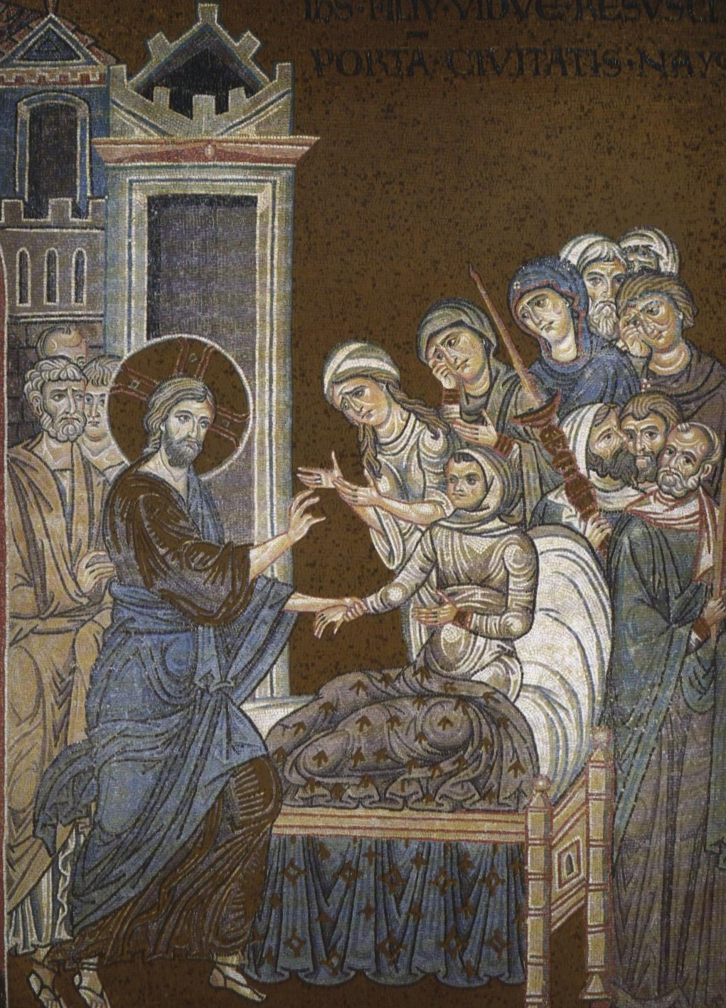 Nain widow's son is resurrected by Christ - mosaic in Monreale Cathedral